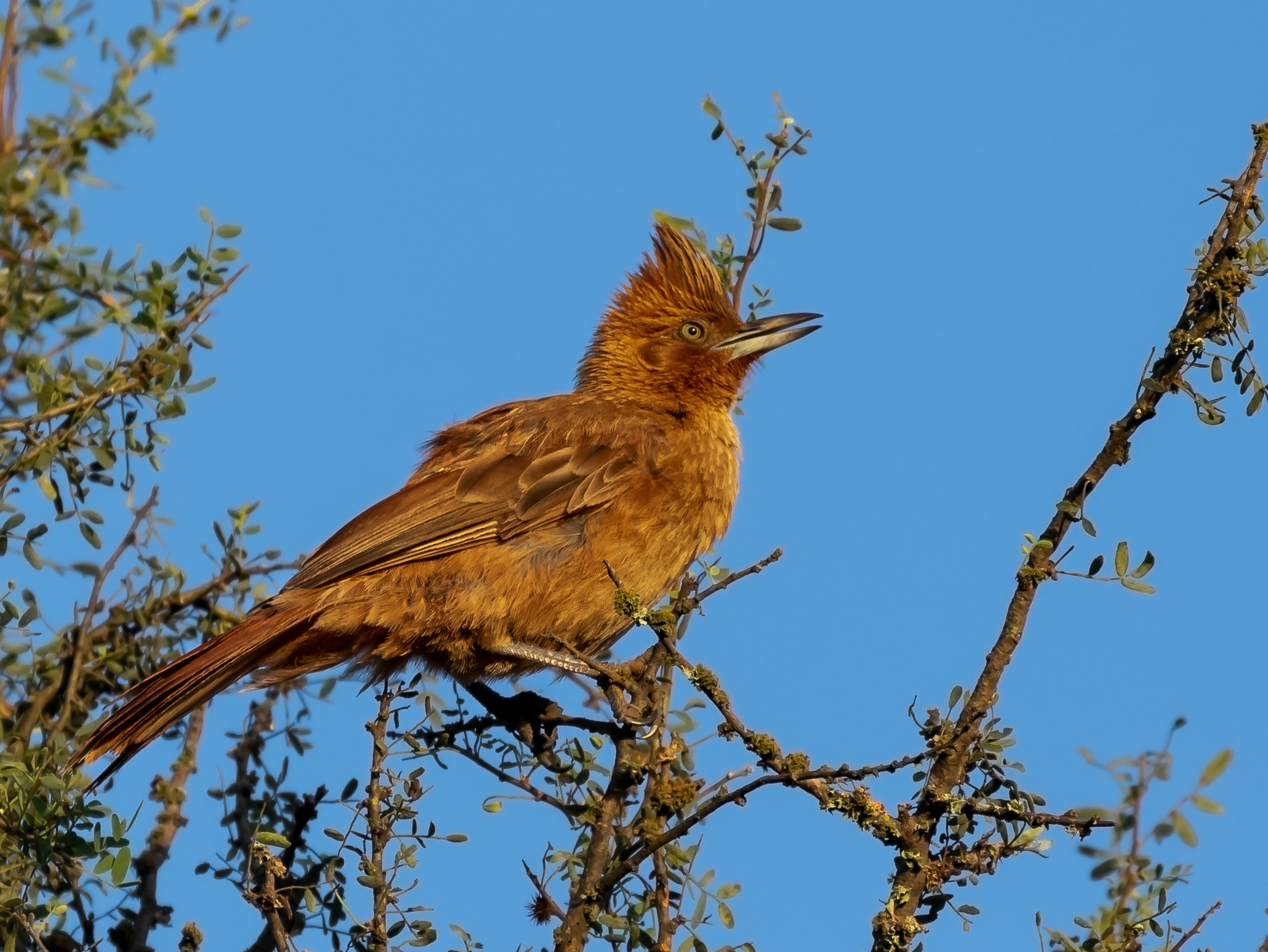 Brown cacholote at Capivara - Santa Fe - Argentina